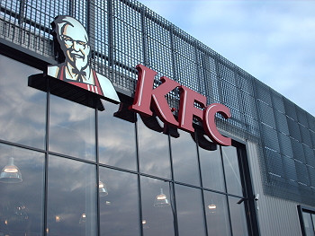 KFC in Groningen, Netherlands.